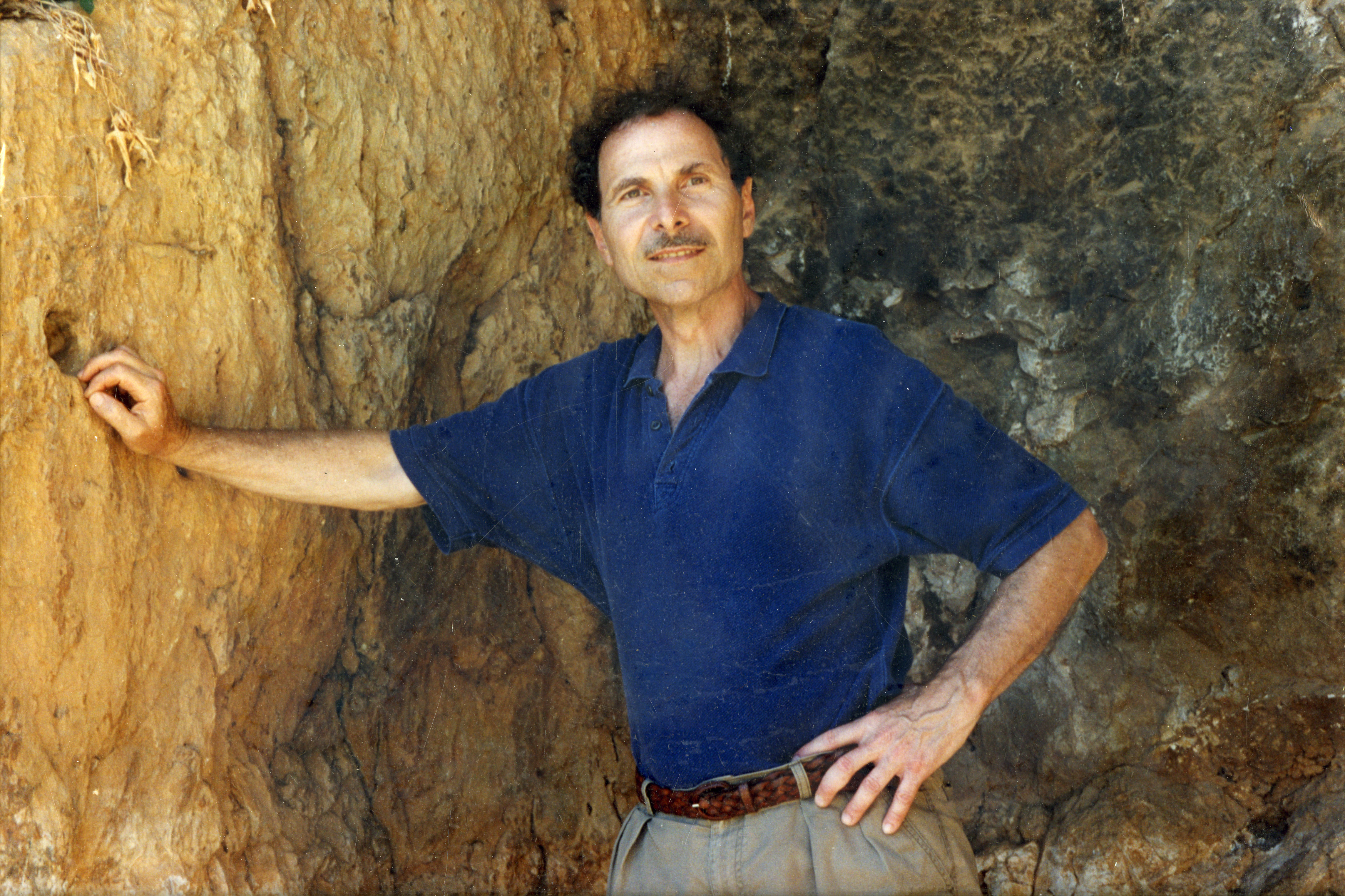 Photo taken of Lazarre Seymour Simckes, 1996, during his Fulbright year of studies in Israel.